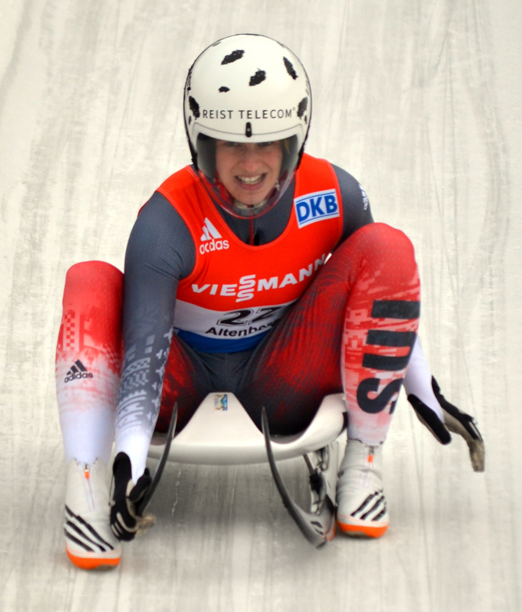 Luge world cup race season 2014/15 in Altenberg/Germany, 19th to 22nd Februar 2015. Last Day: Womens race.